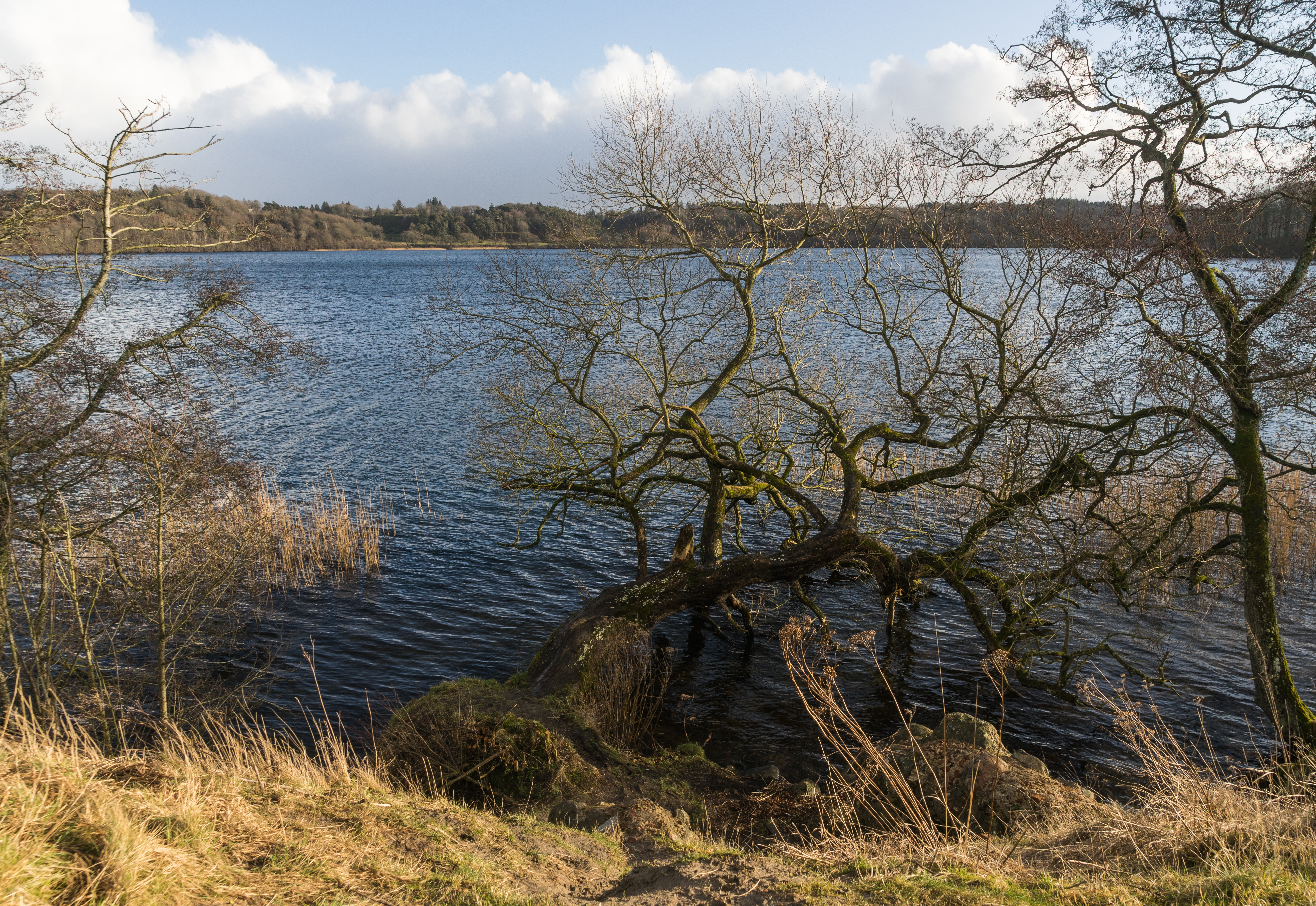 Walking along the Hald lake, Viborg Commune, Denmark.